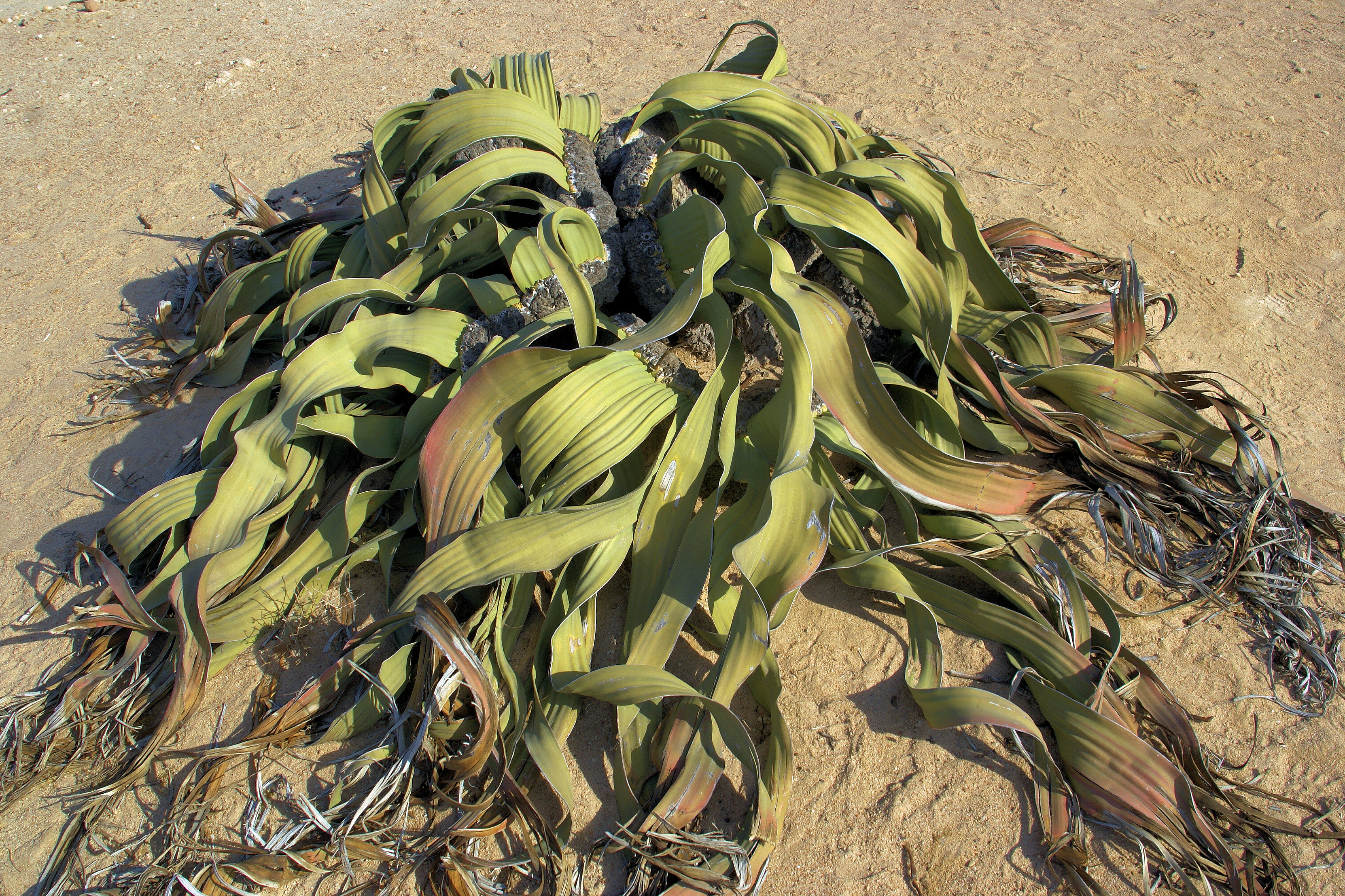 A Welwitschia plant at Welwitschia Plains, Erongo Region, Namibia